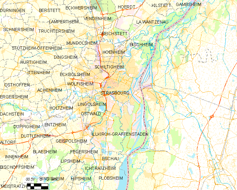 Map of French municipality